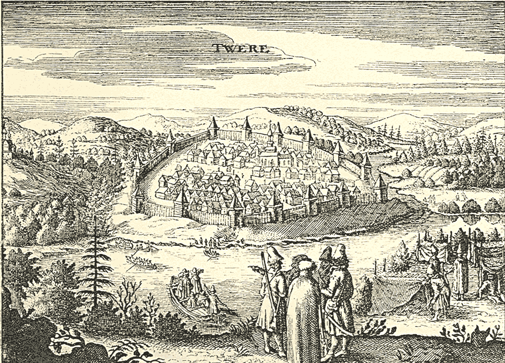 Tver